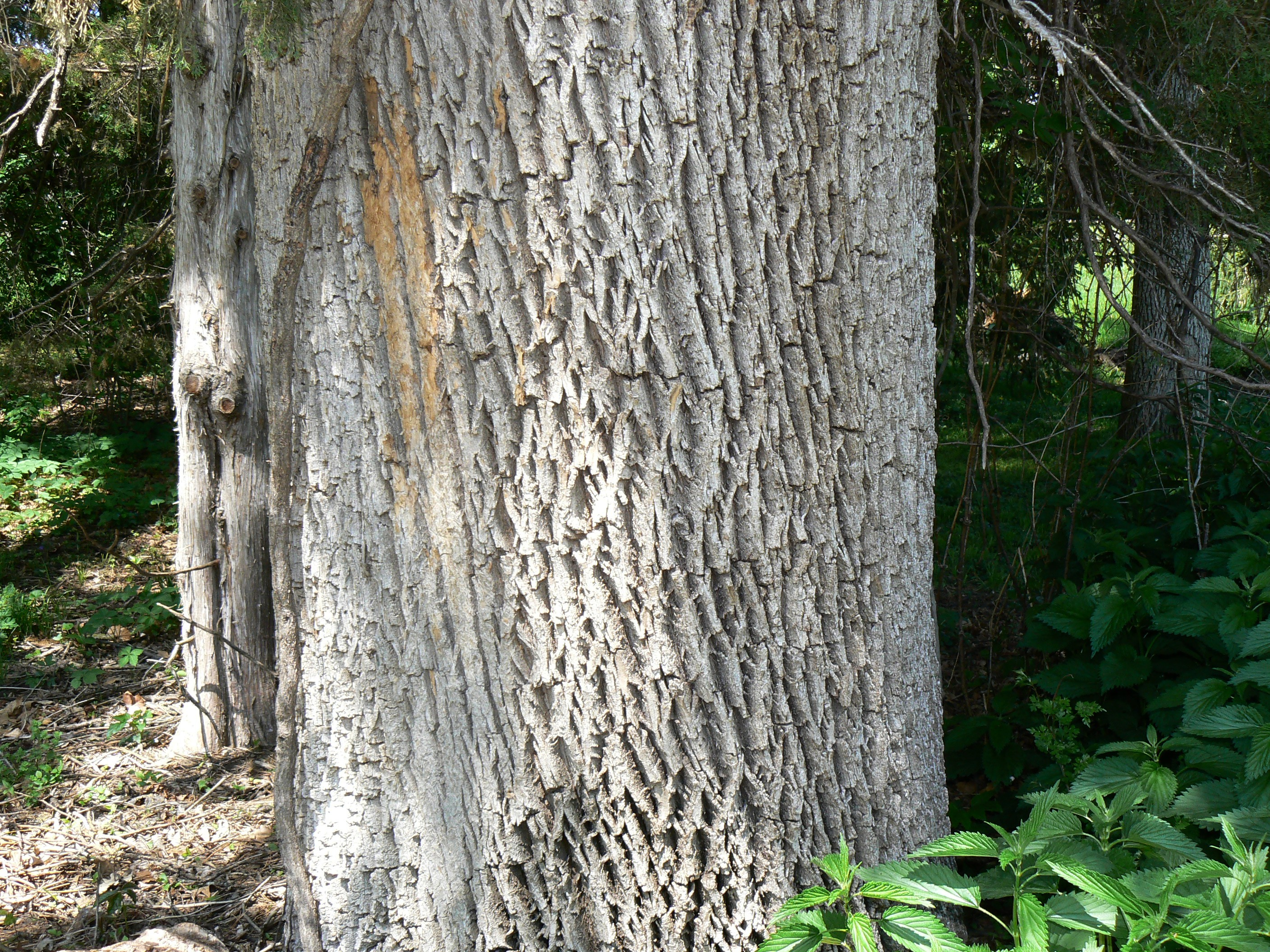 Green Ash (Fraxinus pennsylvanica) bark detail